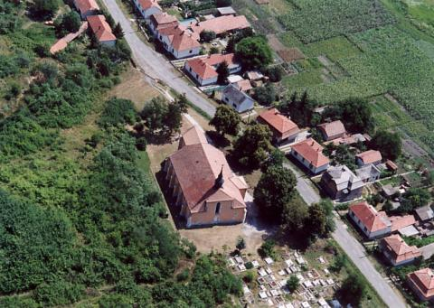 Mátraverebély, Hungary, aerialphotography